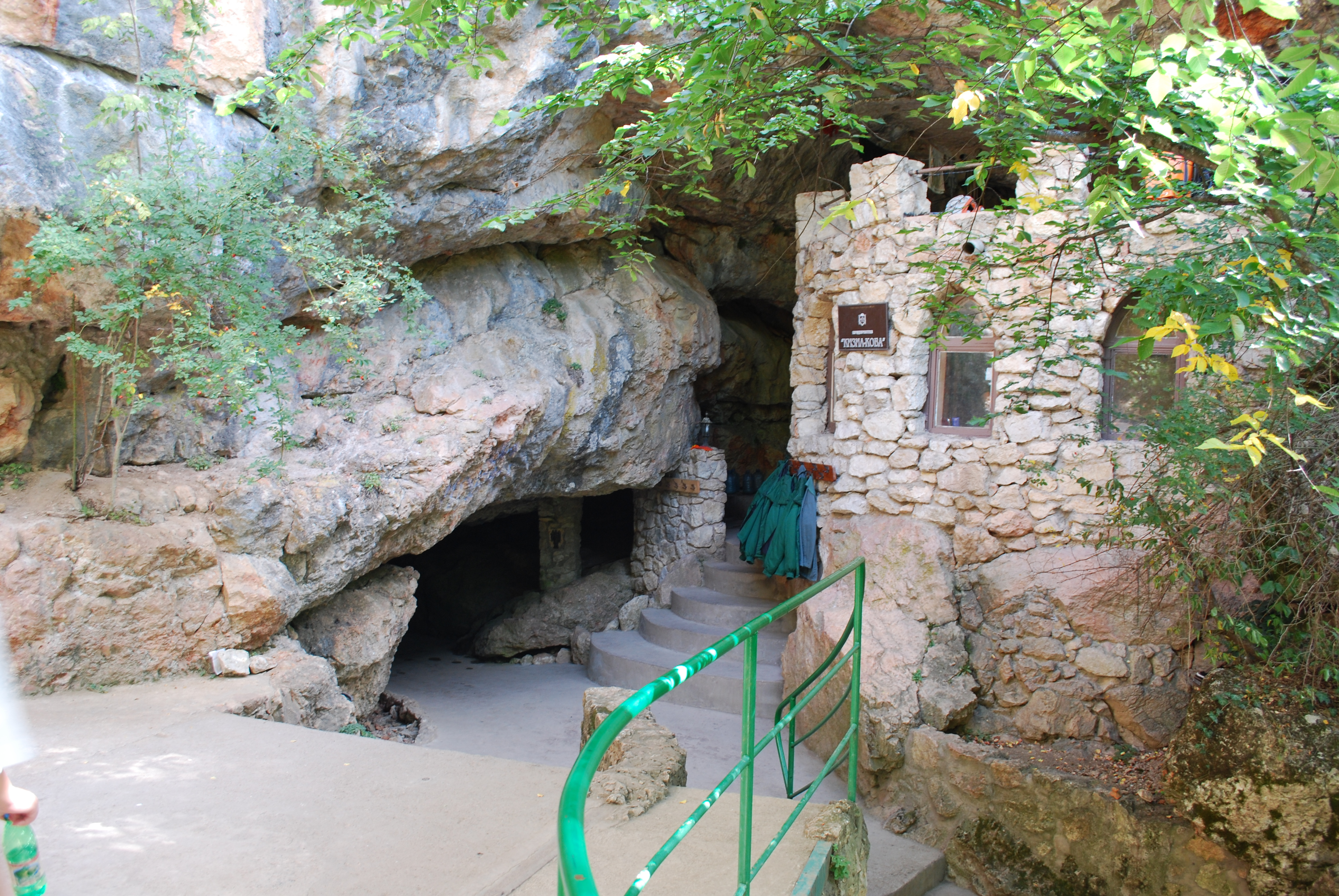 The entrance to the cave Kyzyl-Koba.